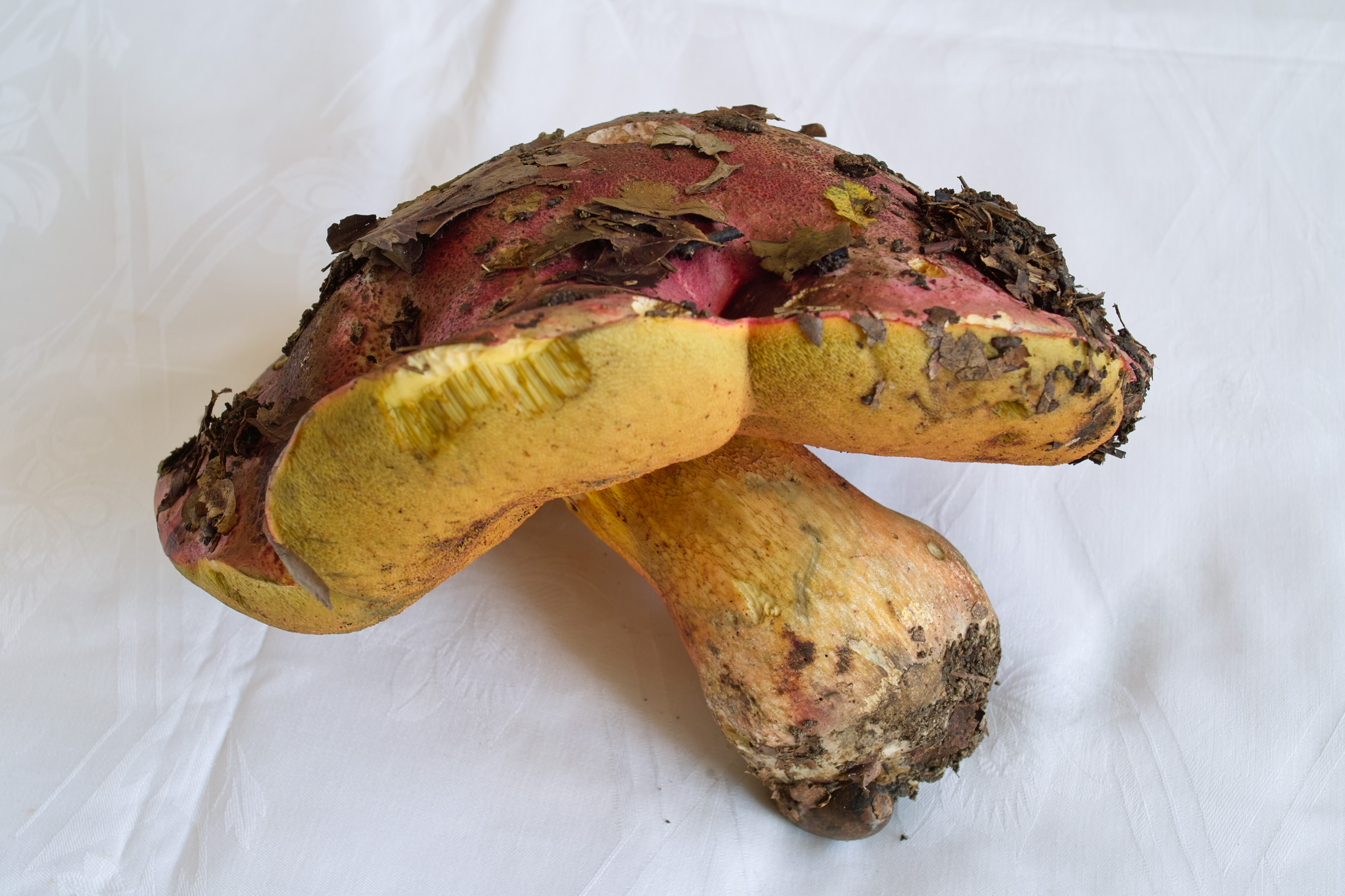 Boletus spinarii